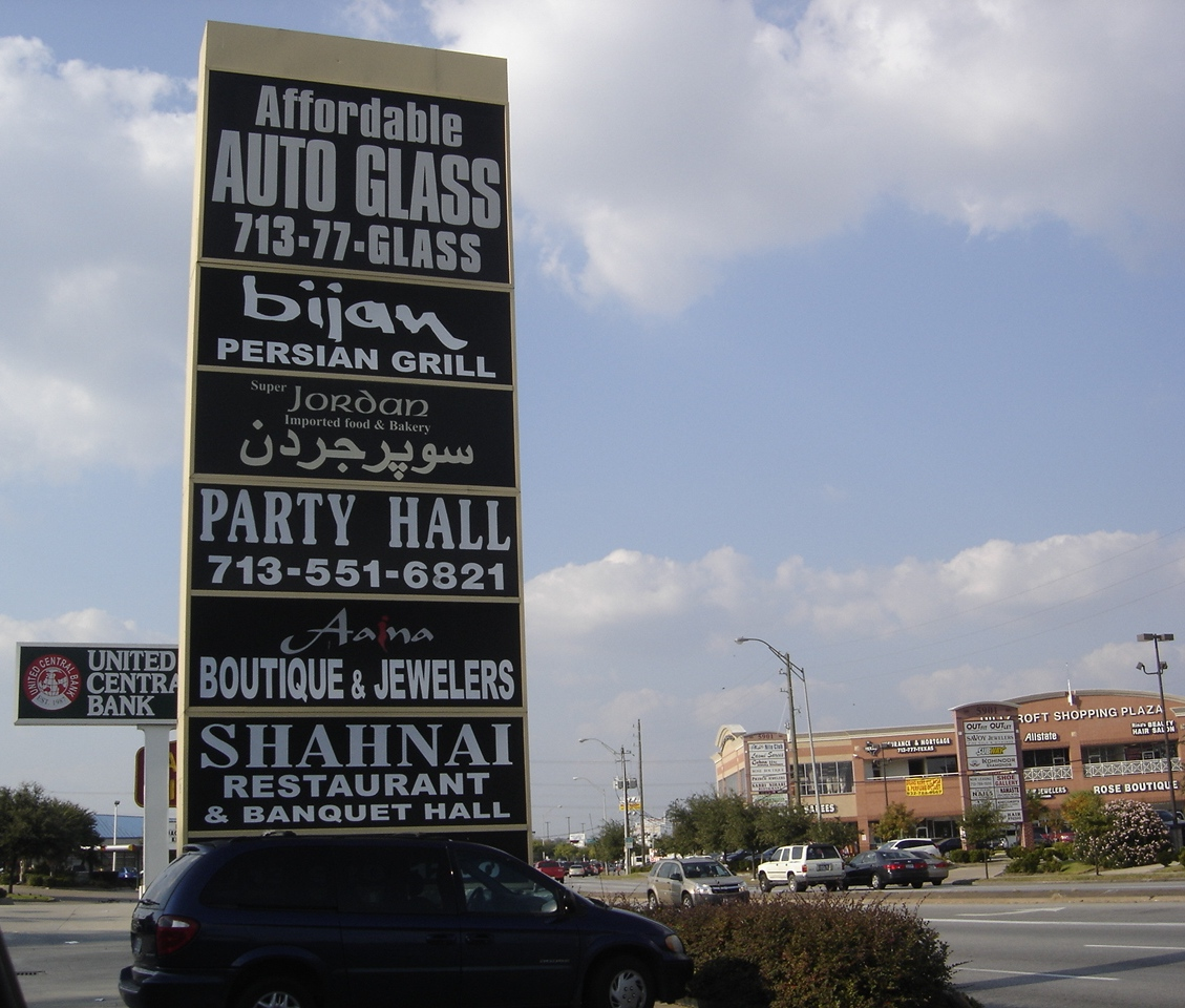 Hillcroft Ave. Houston, Texas, looking north